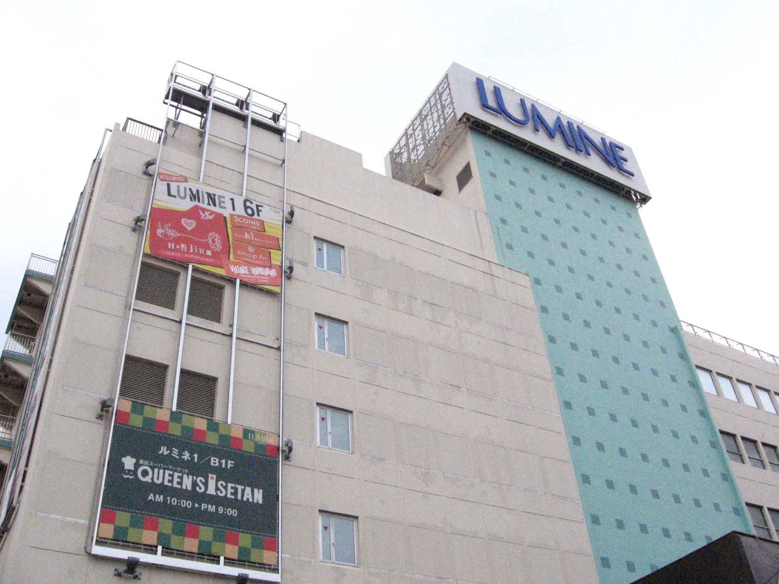 Omiya Lumine